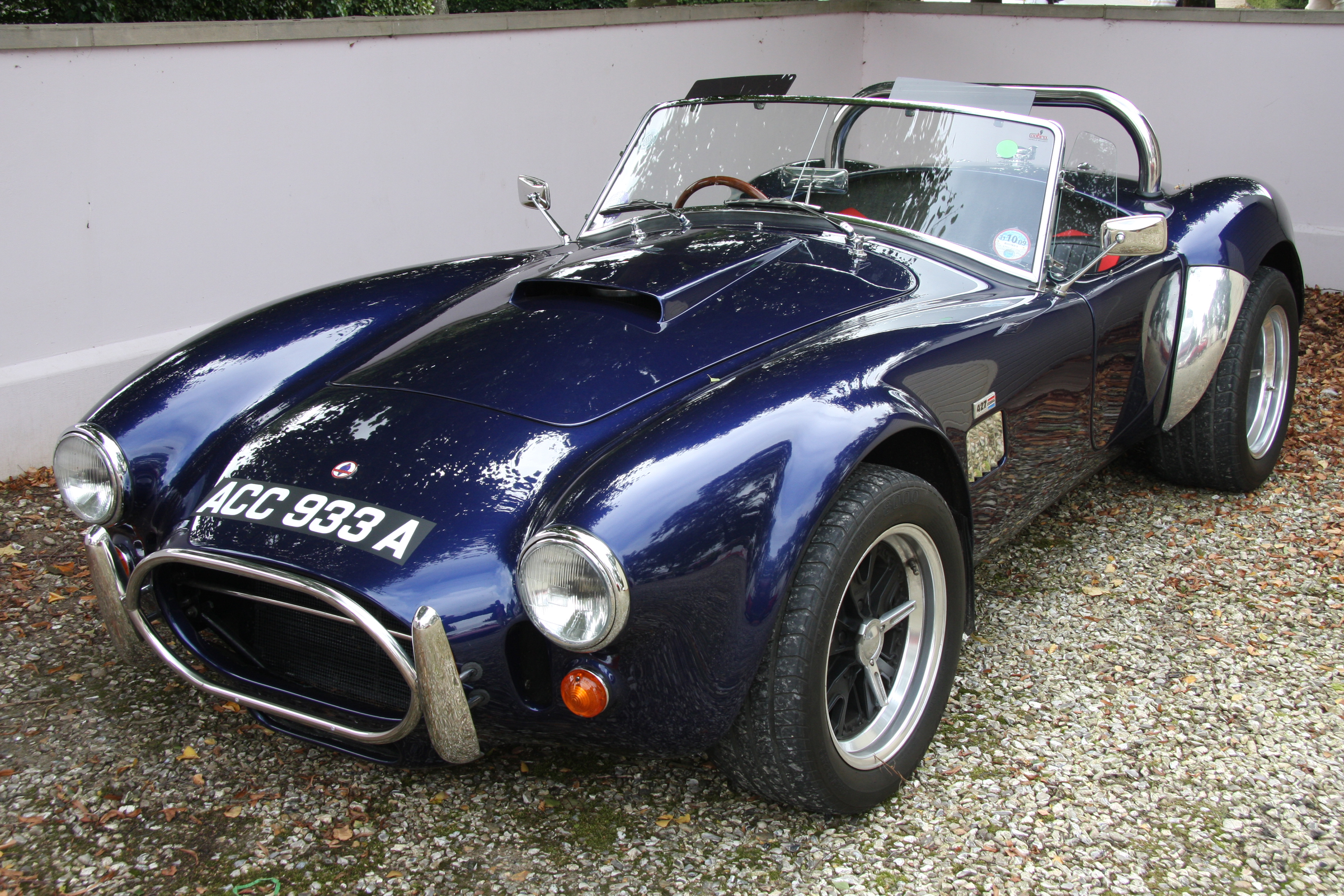 Southern Roadcraft SRV8 Cobra replica